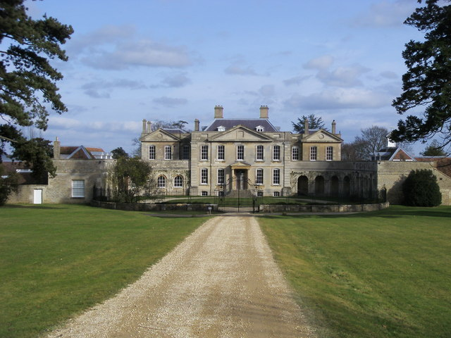 Woodperry House From the footpath to Stanton St John looking to the grand Woodperry House